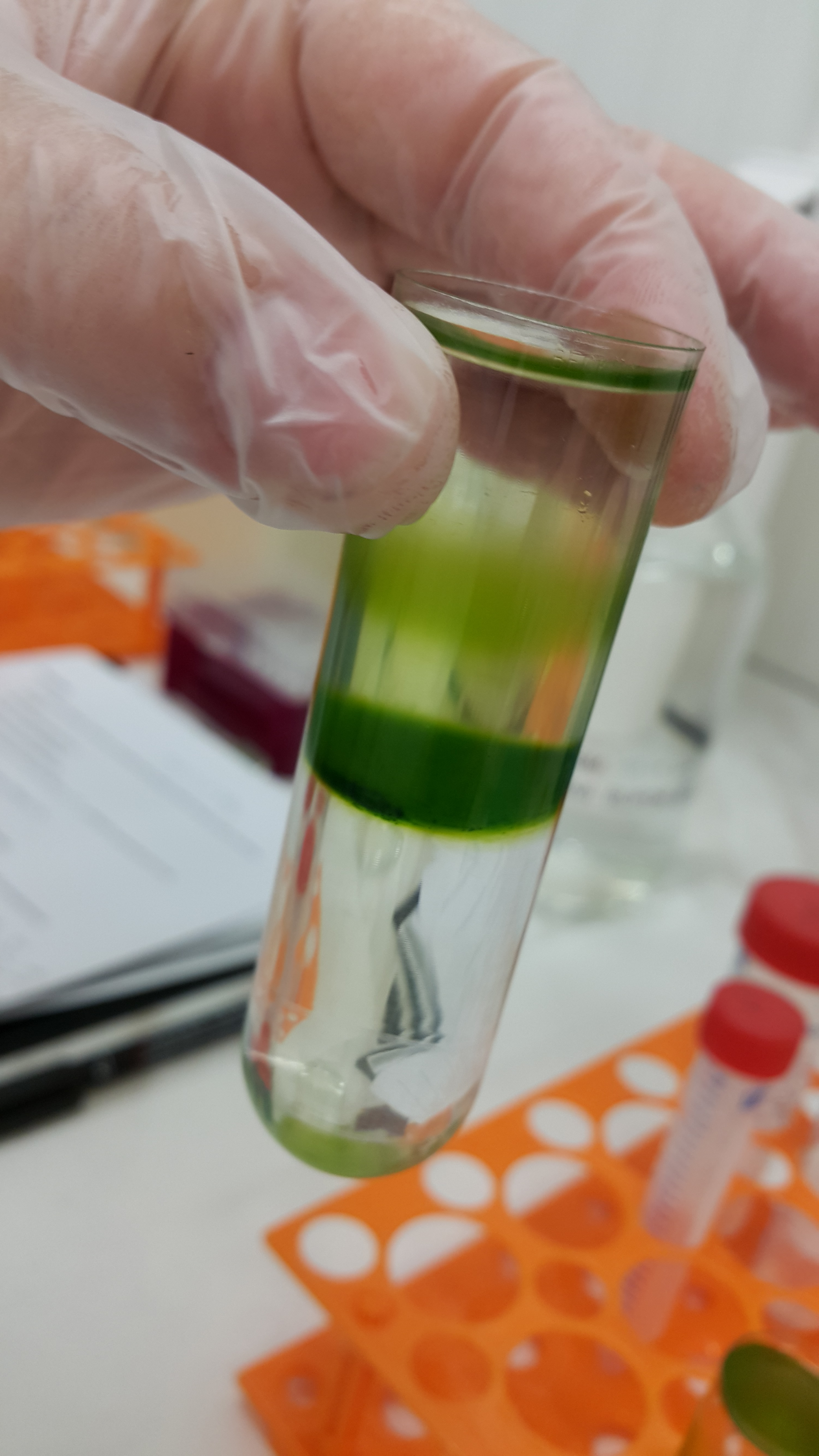 Plant cell organelles fractioned by ultracentrifugation in sucrose gradient.